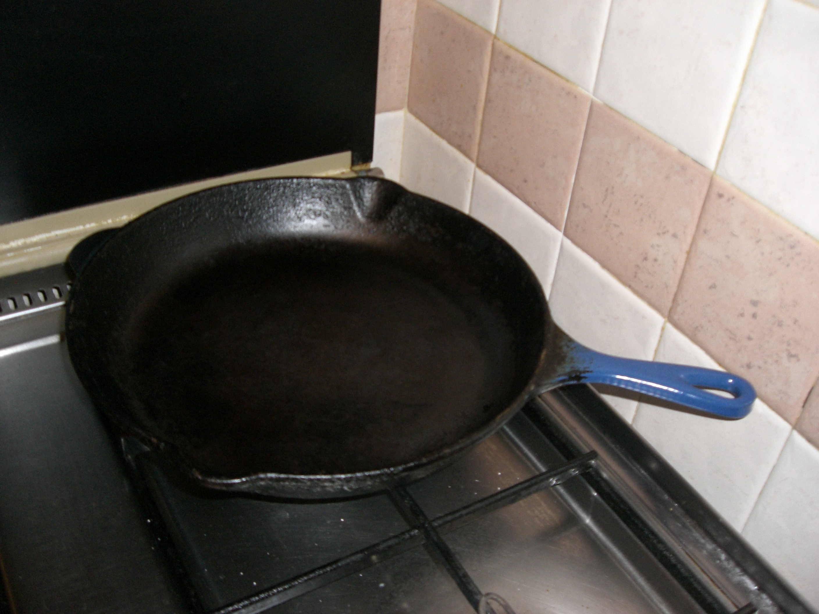 A cast-iron frying pan (28 cm (11 in) in diameter) with a blue handle.